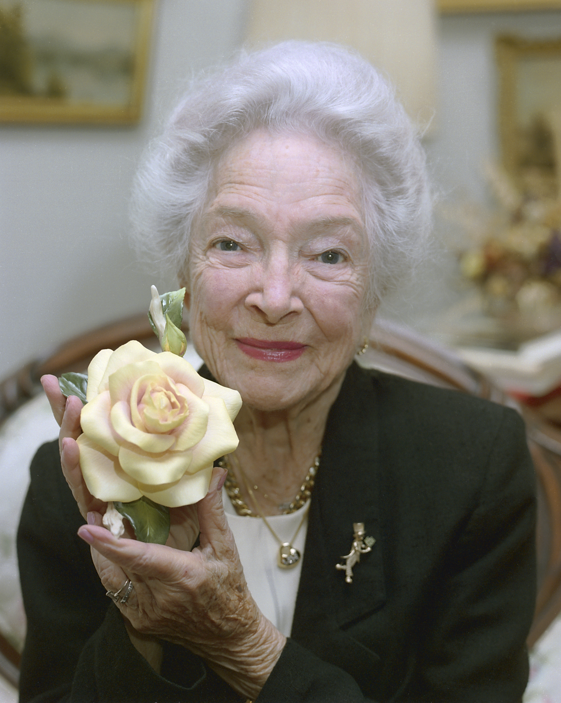 Actress Helen Hayes MacArthur holds the Helen Hayes MacArthur Rose Award modeled after a rose in her garden and awarded to individuals by the Helen Hayes Hospital Foundation. Photo taken in the 1990s.